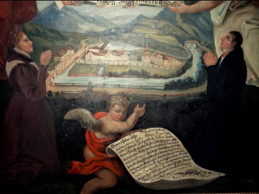 Gründerbild Andreas und Helene Töpper